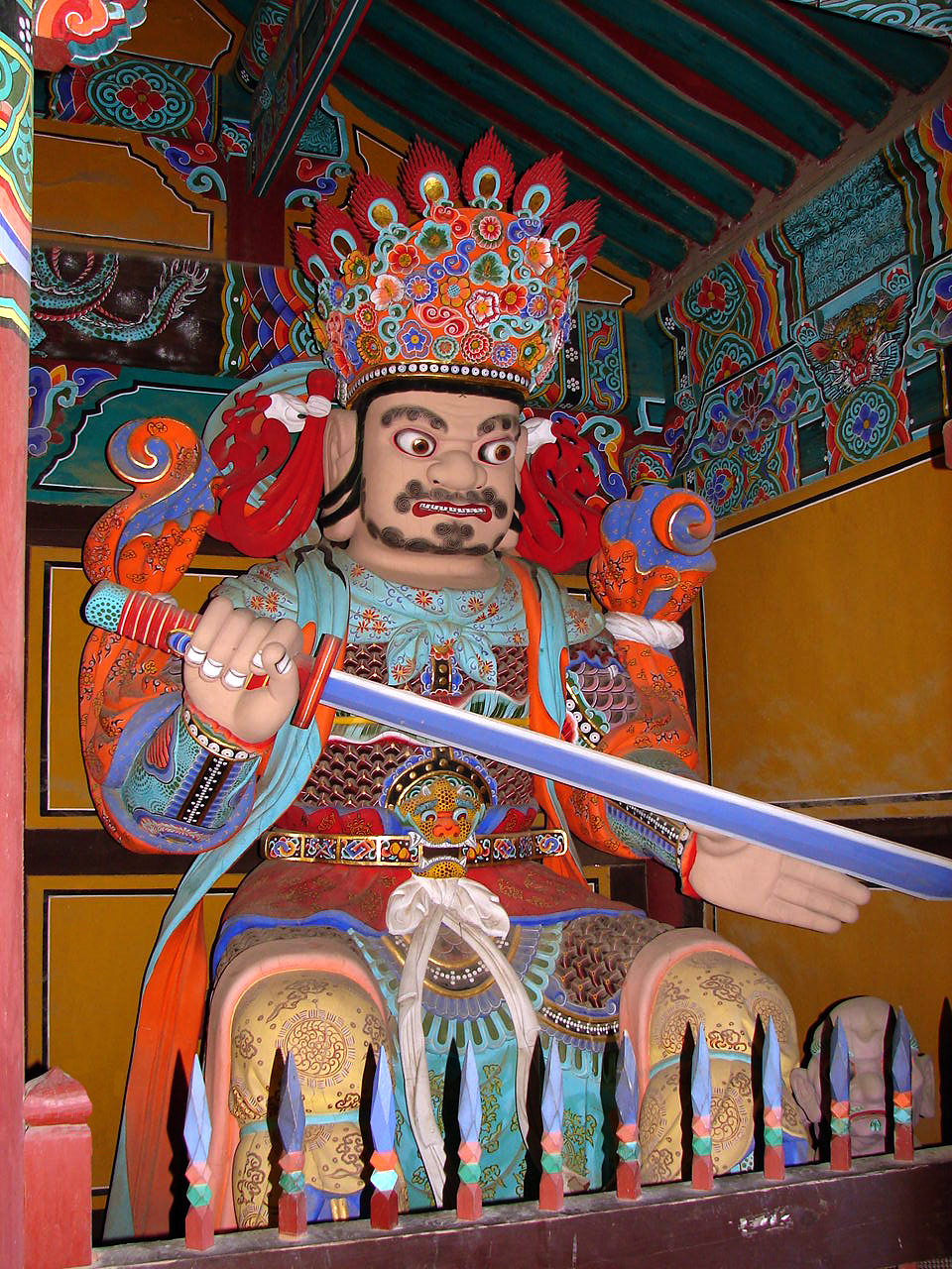 Virudhaka, Guardian of the South is one of the Four Heavenly Kings guarding the entrance to Beomeosa. The Four Heavenly Kings dwell in the heaven closest to this earth and guard the four cardinal directions.